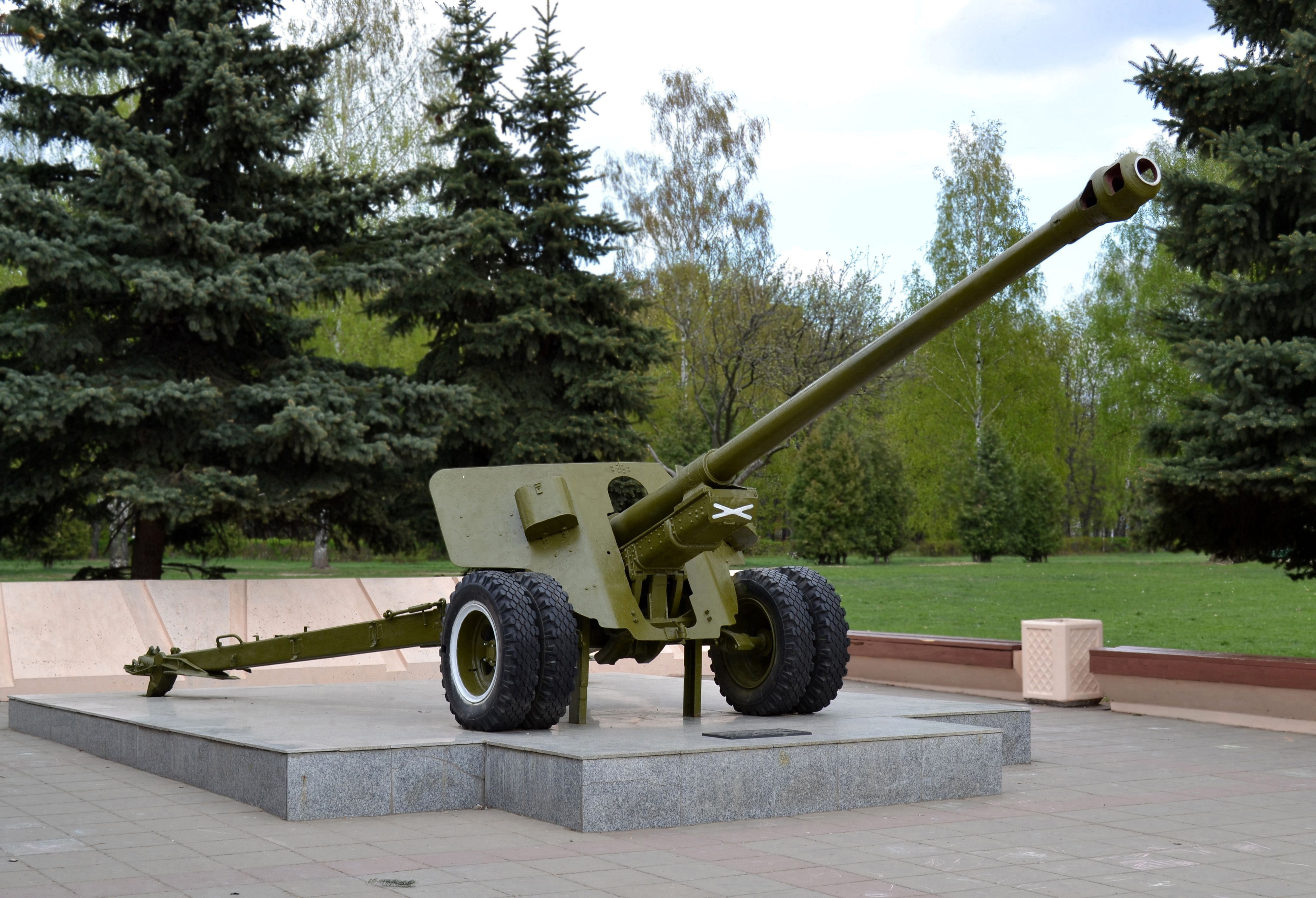 A Soviet 100 mm field gun model 1944 BS-3 mounted as a monument at the Memorial of Glory in Korolyov, Moscow Oblast, Russia. The monument was unveiled in 1985. The inscription on the pedestal: “Kaliningrad [1] to the battlefront. 100 mm anti-tank gun BS-3 is a creation of the working people of the city. The chief designer — Grabin Vasily Gavrilovich”.